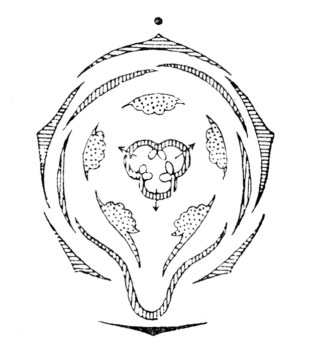 Diagram of a flower of Viola